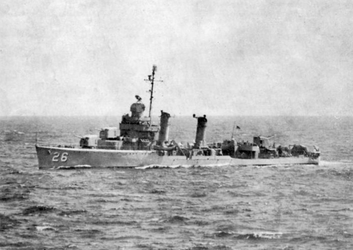 The U.S. Navy destroyer minesweeper USS Hobson (DMS-26) underway in 1948.